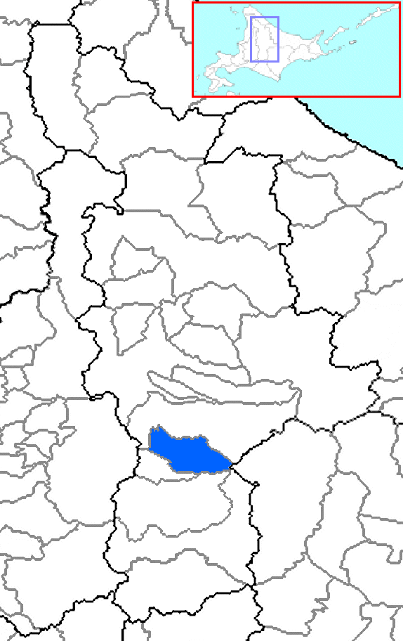 The location of Kamifurano in Kamikawa Subprefecture, Hokkaido Prefecture, Japan.